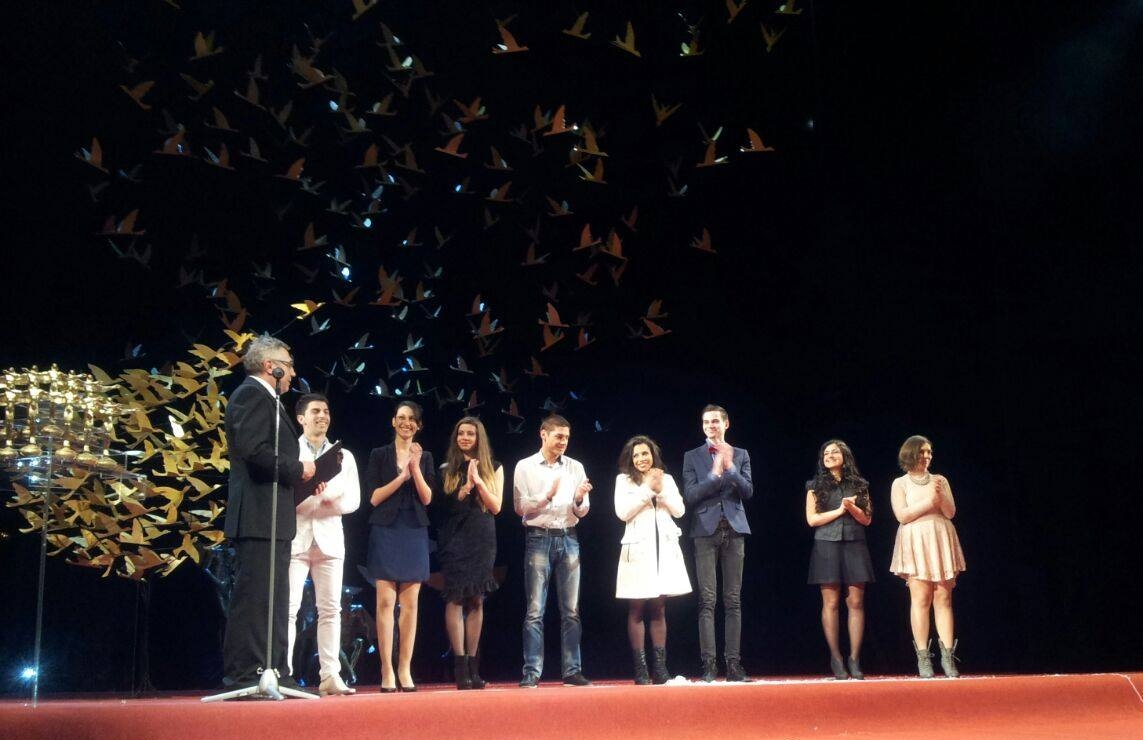 Ikar 2015.